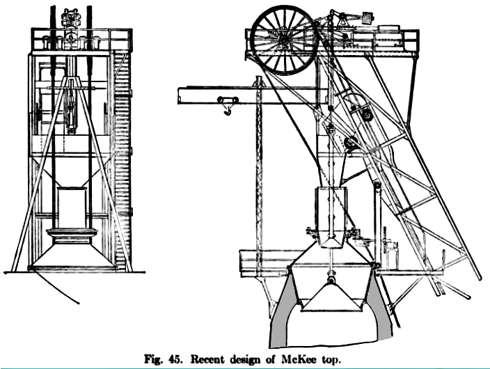 McKee bell-top for blast furnaces.